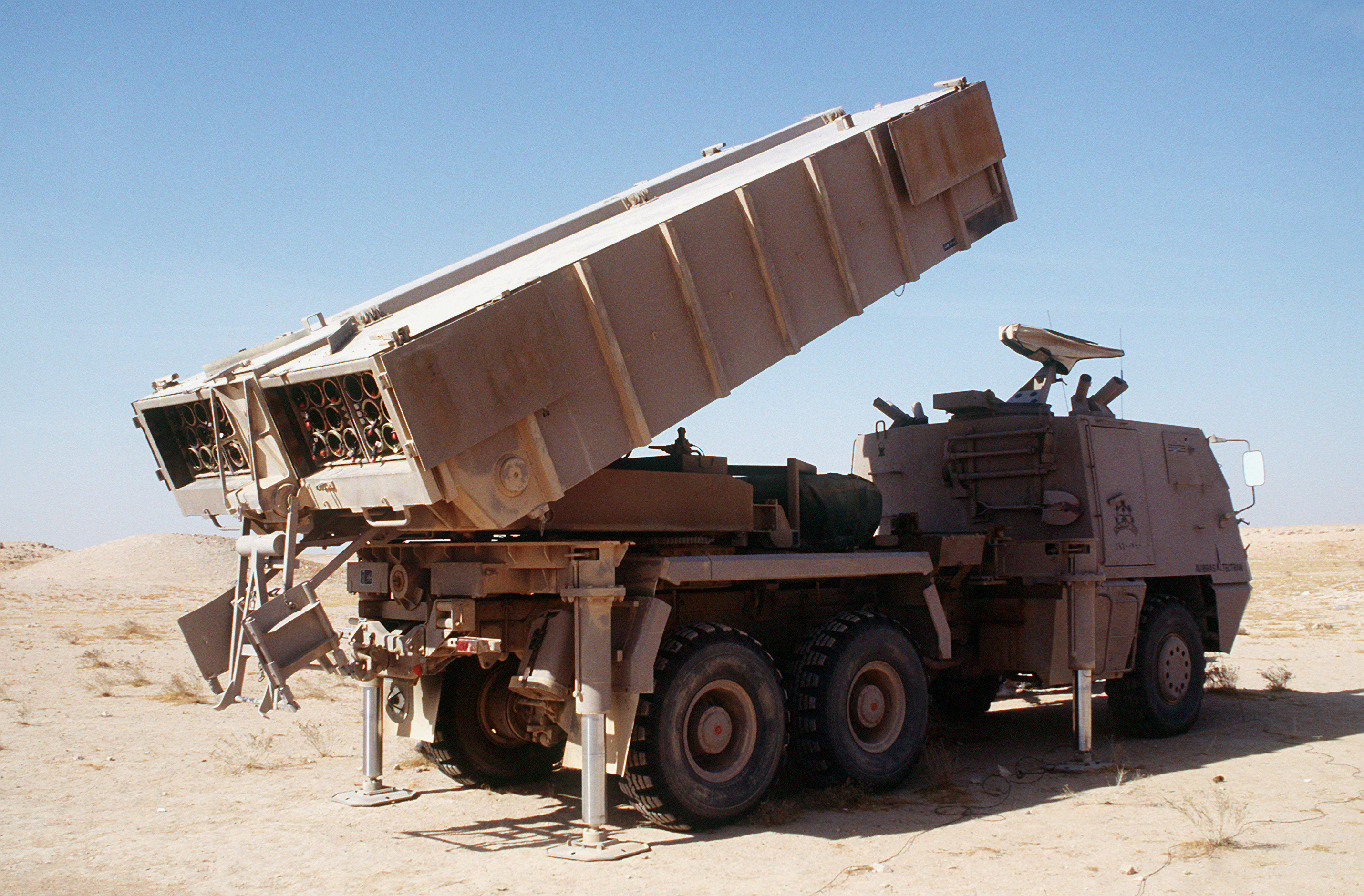 A Brazilian-made Avibras ASTROS-II SS-30 multiple rocket systems on Tectran 6x6 AV-LMU trucks stand in firing position while being displayed as part of a demonstration of Saudi Arabian equipment during Operation Desert Shield.